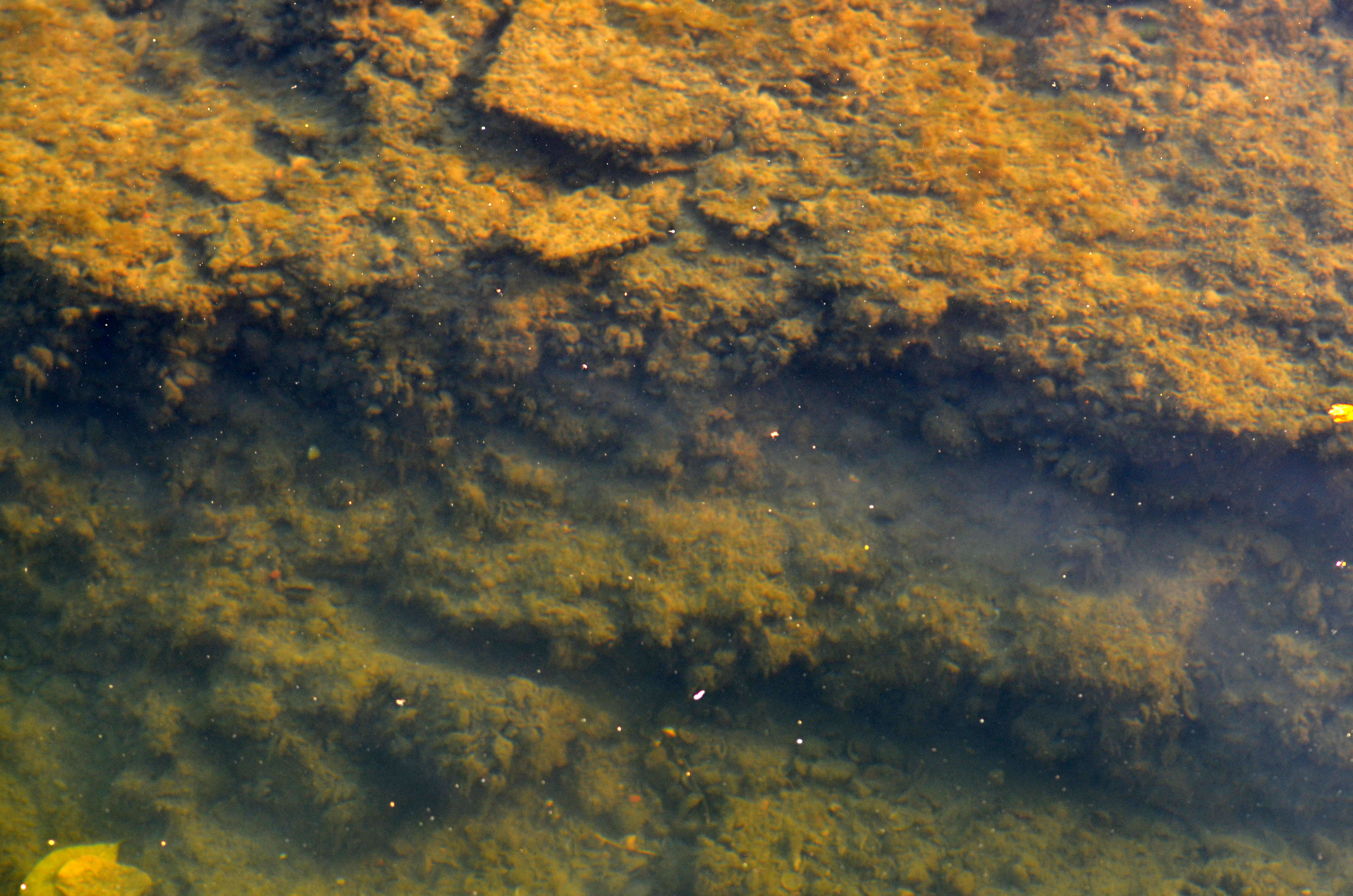 Photography of sediment near the bank (left bank) of the bottom of the downstream portion of the Upper-Deûle (Lille / Lambersart area) in northern France. This photo was made on a day when channeled Deûle was unusually clear (no barge traffic or sluice opening, November 11, 2014). And currents generated by contrecourants hydropeaking and propeller wash barges dug sediment so differentiated, after building work on banks.